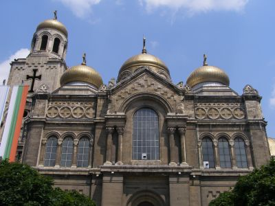 The Dormition of the Theotokos Cathedral in Varna, Bulgaria